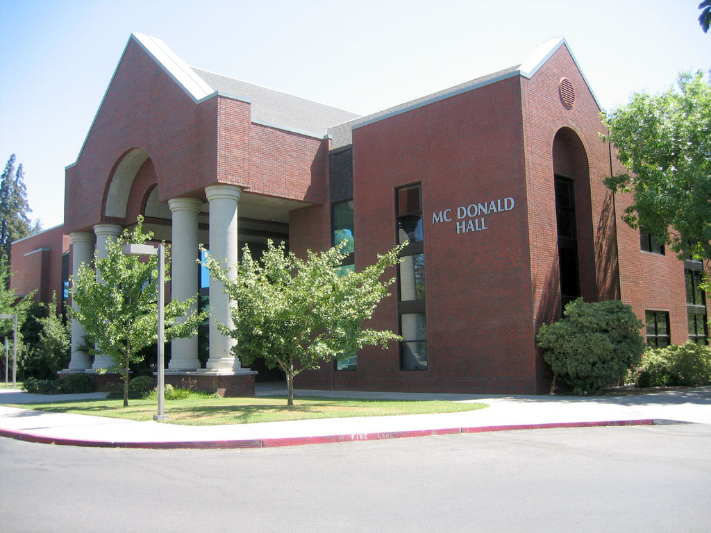 Mc Donald Hall, Fresno Pacific University, Fresno, California